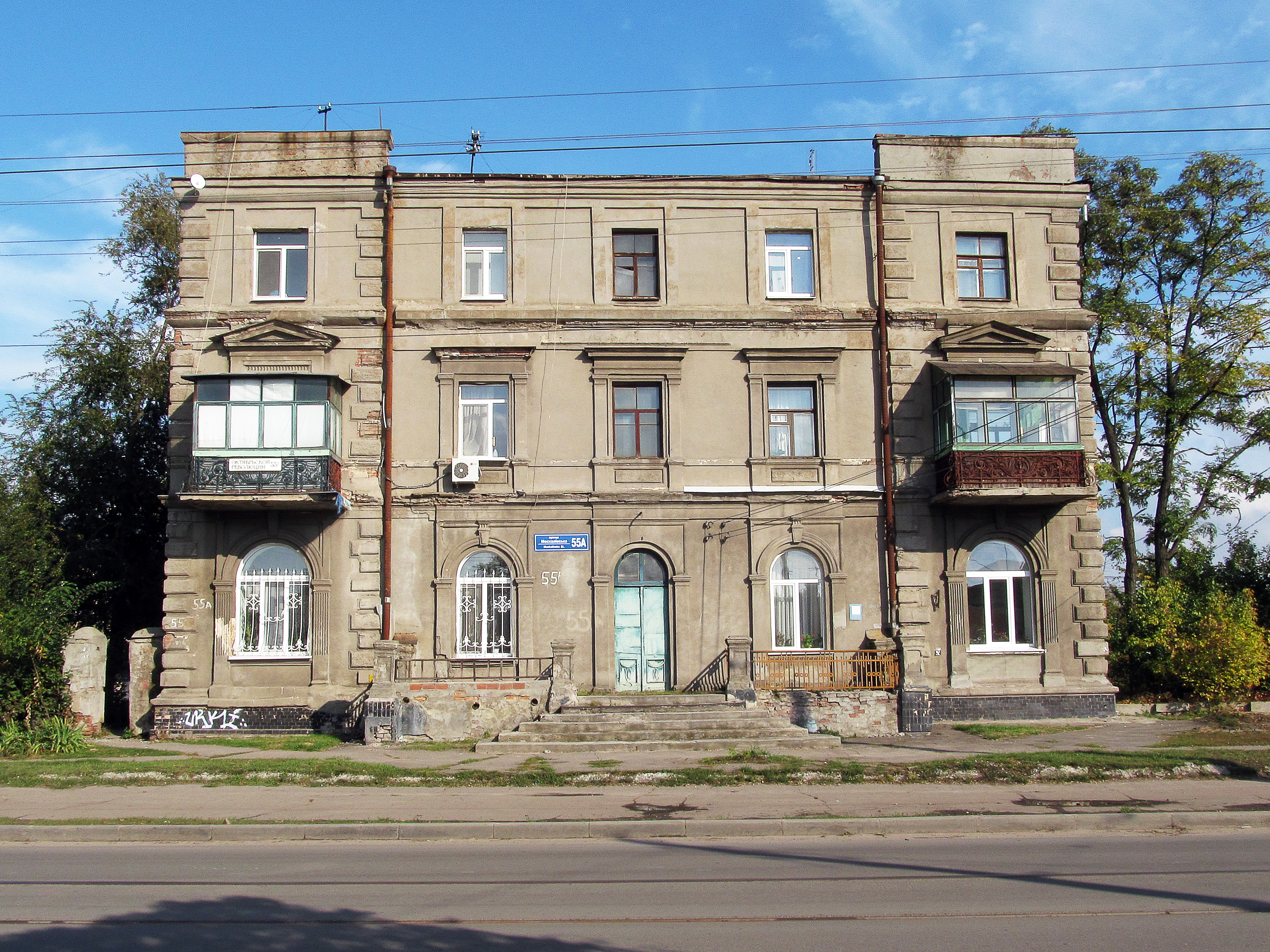 Moskalivska Street, 55a, Kharkiv, Ukraine.